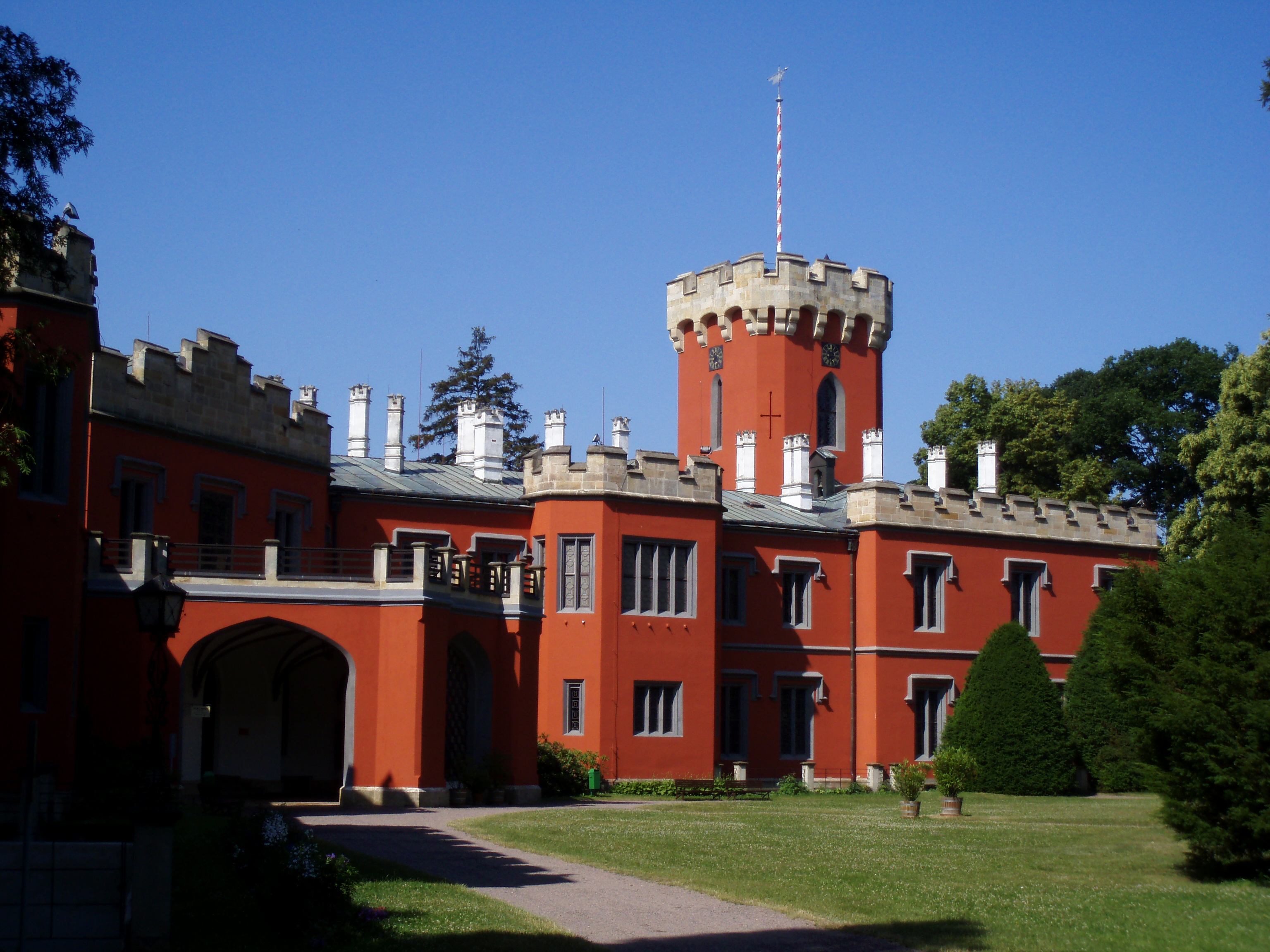 Castle Hradek u Nechanic (CZ)